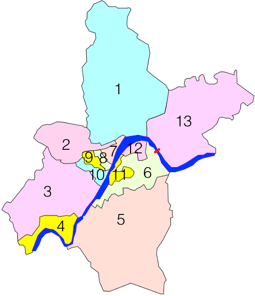 location of Yangluo Bridge in Wuhan, China